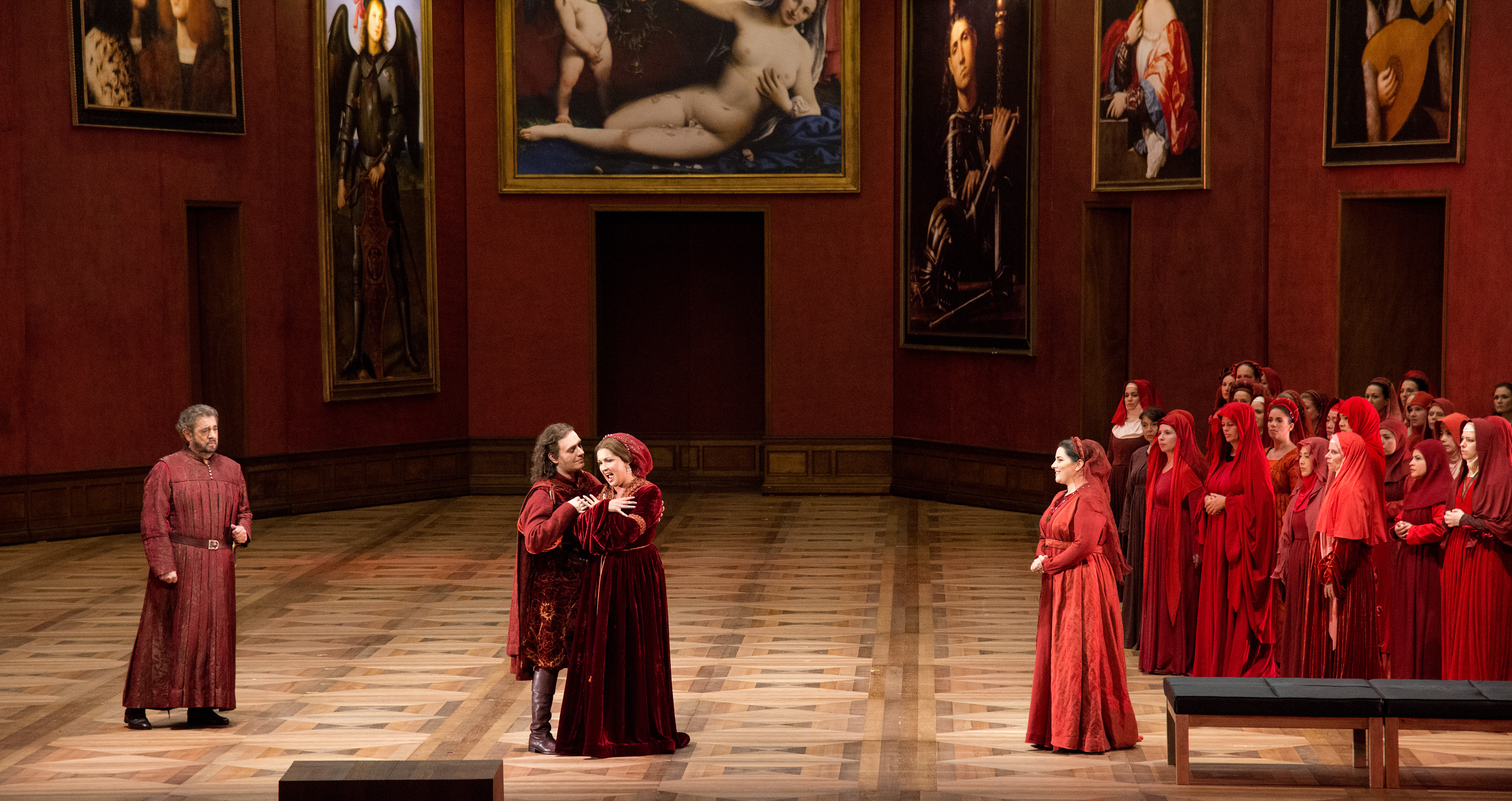 Il Trovatore, Salzburg Festival 2014 with Plácido Domingo (Conte di Luna), Francesco Meli (Manrico), Anna Netrebko (Leonora), Diana Haller and the Chorus of Vienna State Opera